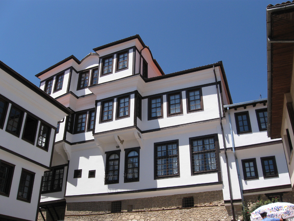 Robevi house, Macedonia